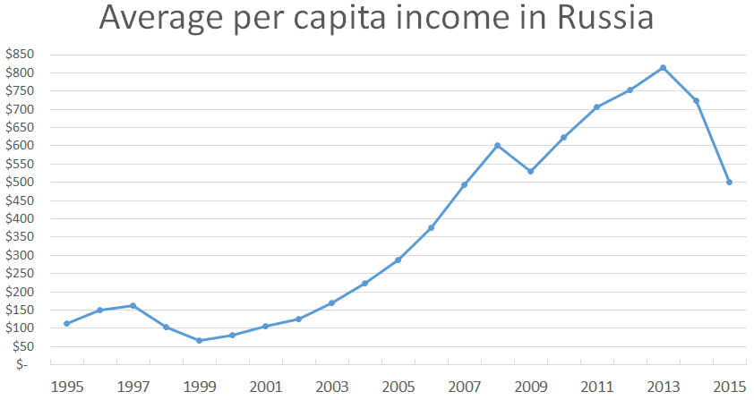 Average per capita income in Russia, 1995-2015 Data sources: Fedstat (income figures), OECD (conversion rates)